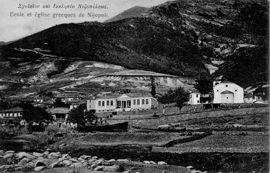 Macedonian village Nižepole near Bitola.